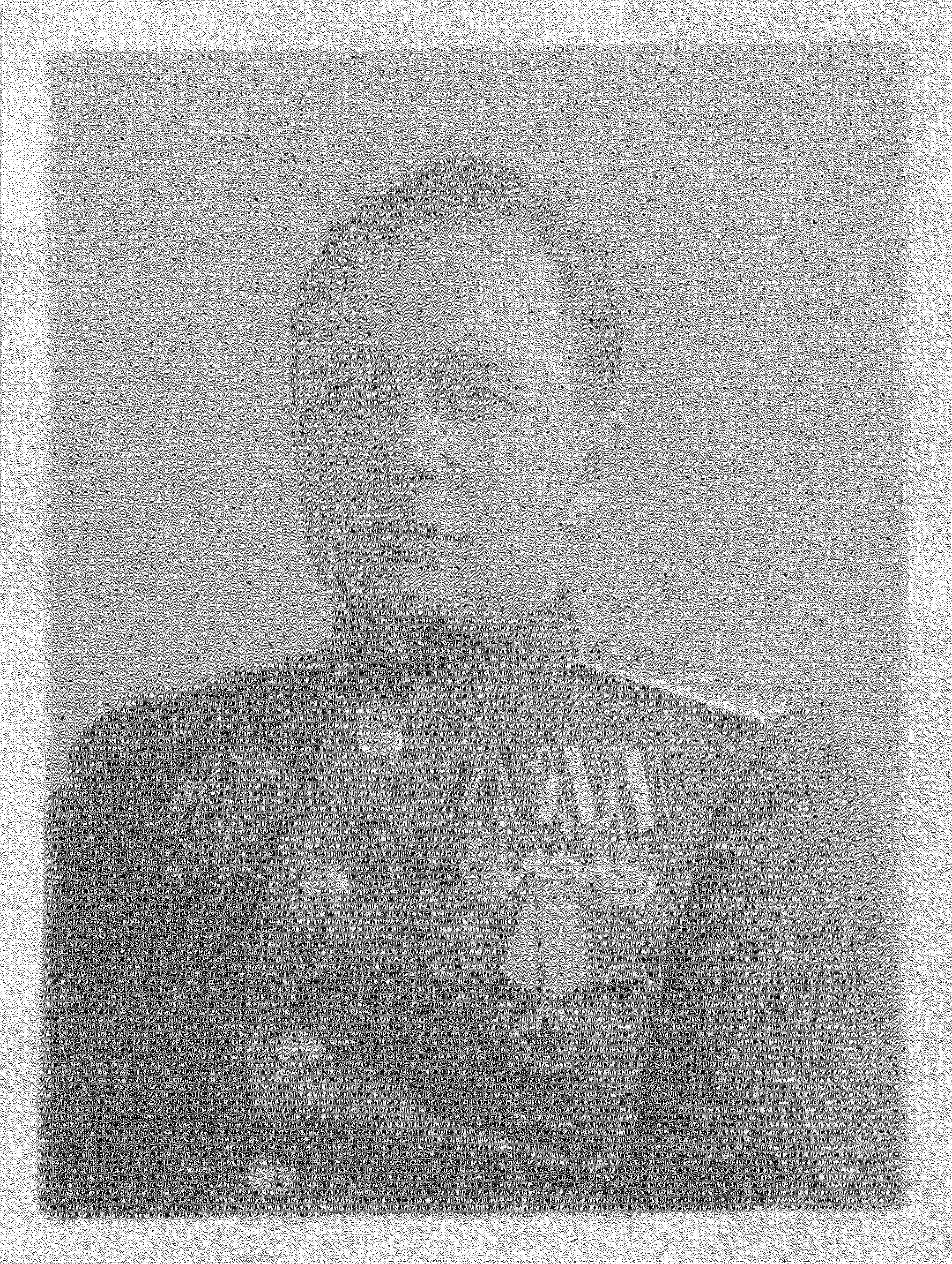 Major general Vasily Semenov